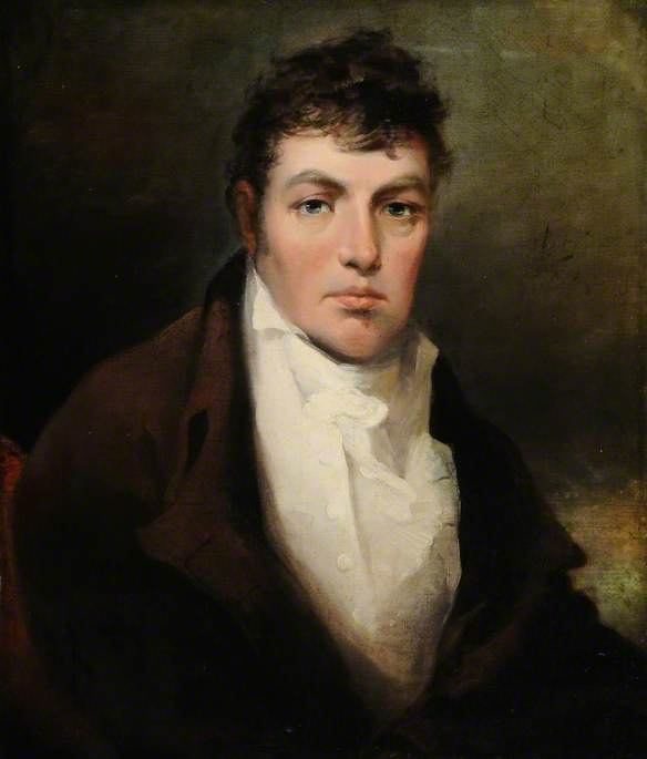 Ebenezer Rhodes (1762-1839); by Chantrey, Francis Leggatt; Museums Sheffield